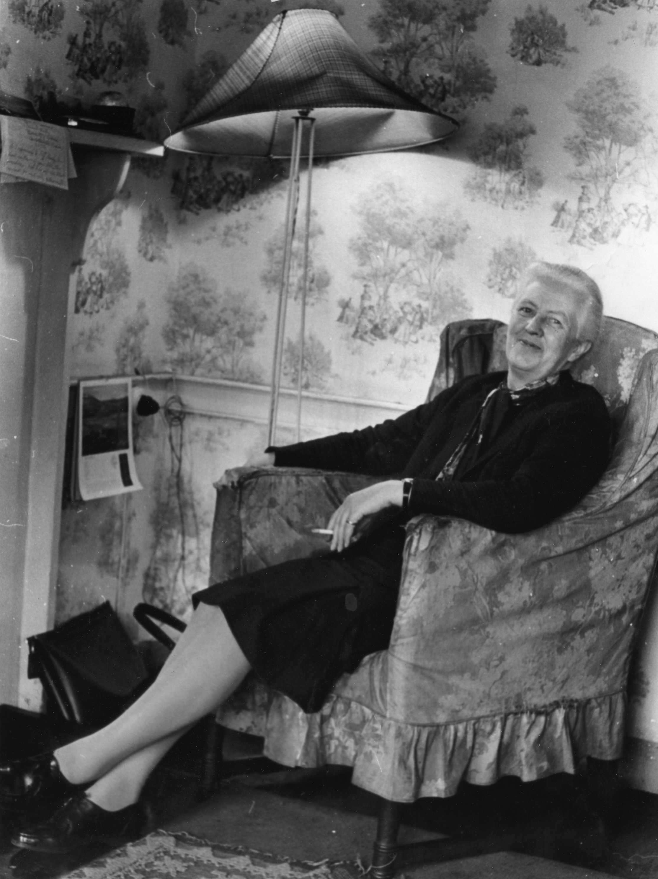 Black and white image of professor A. J. Otway-Ruthven at home.